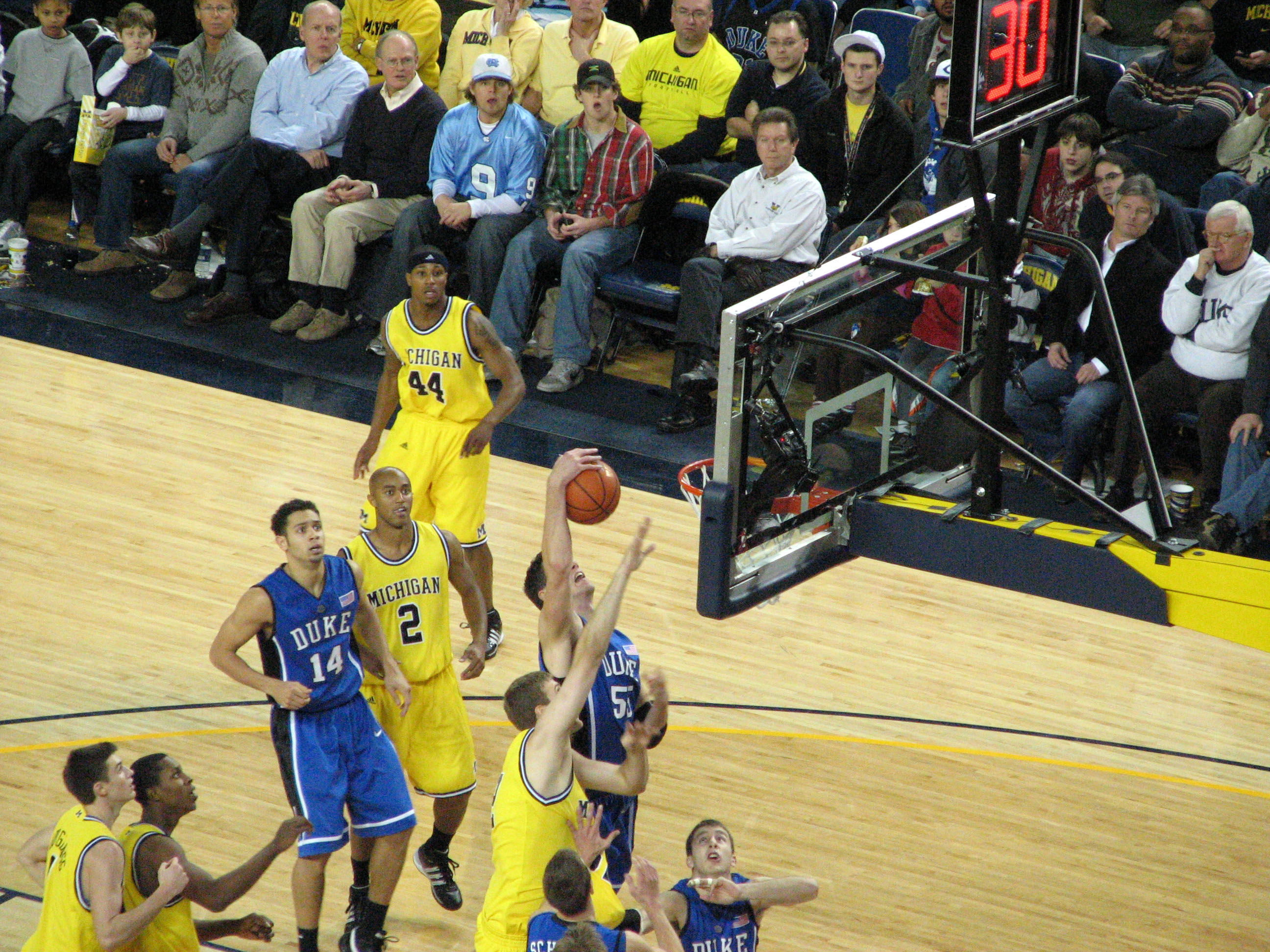 Michigan Wolverines men's basketball against Duke Blue Devils men's basketball